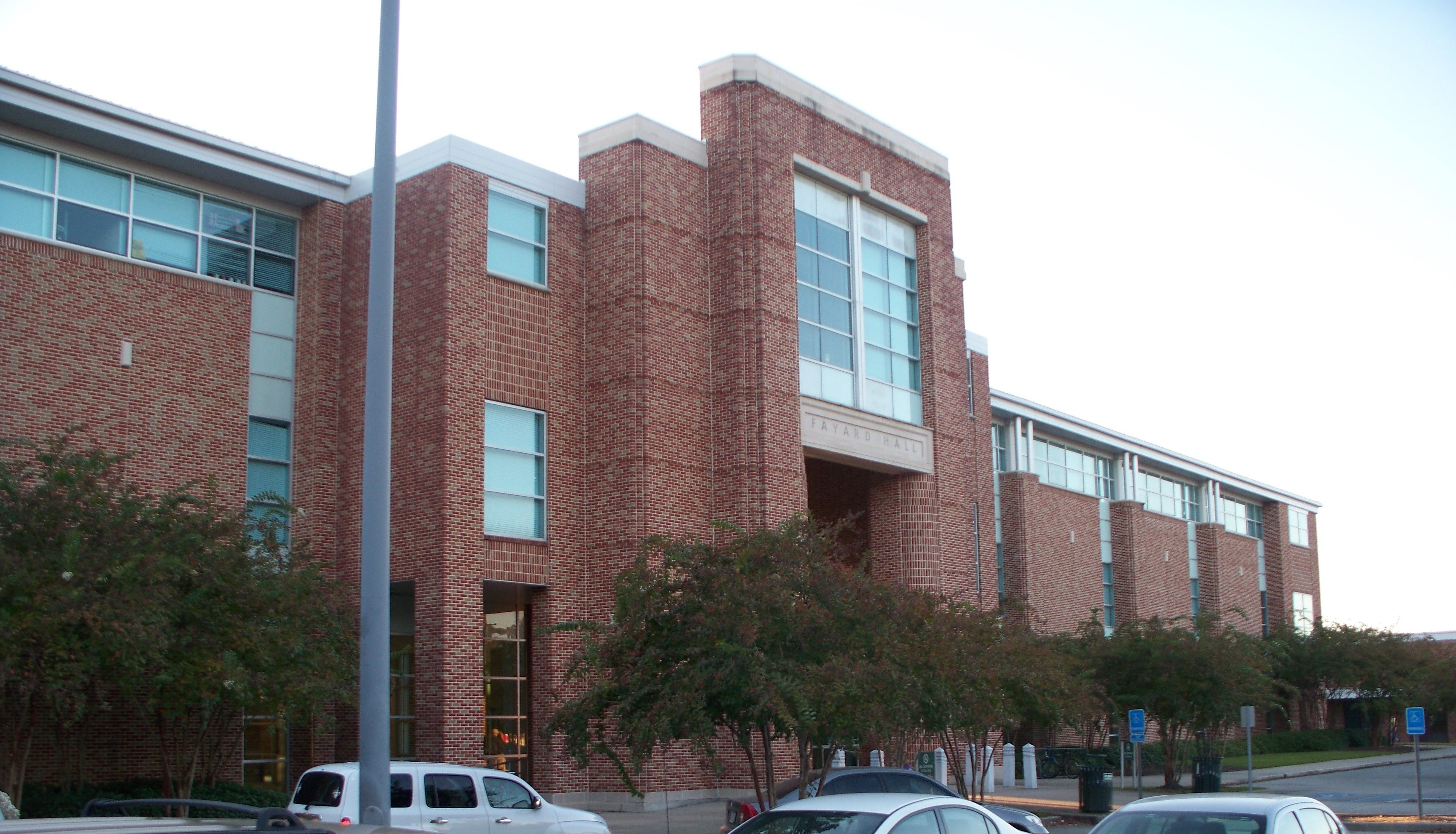 Fayard Hall on the campus of Southeastern Louisiana University, viewed from the southeast